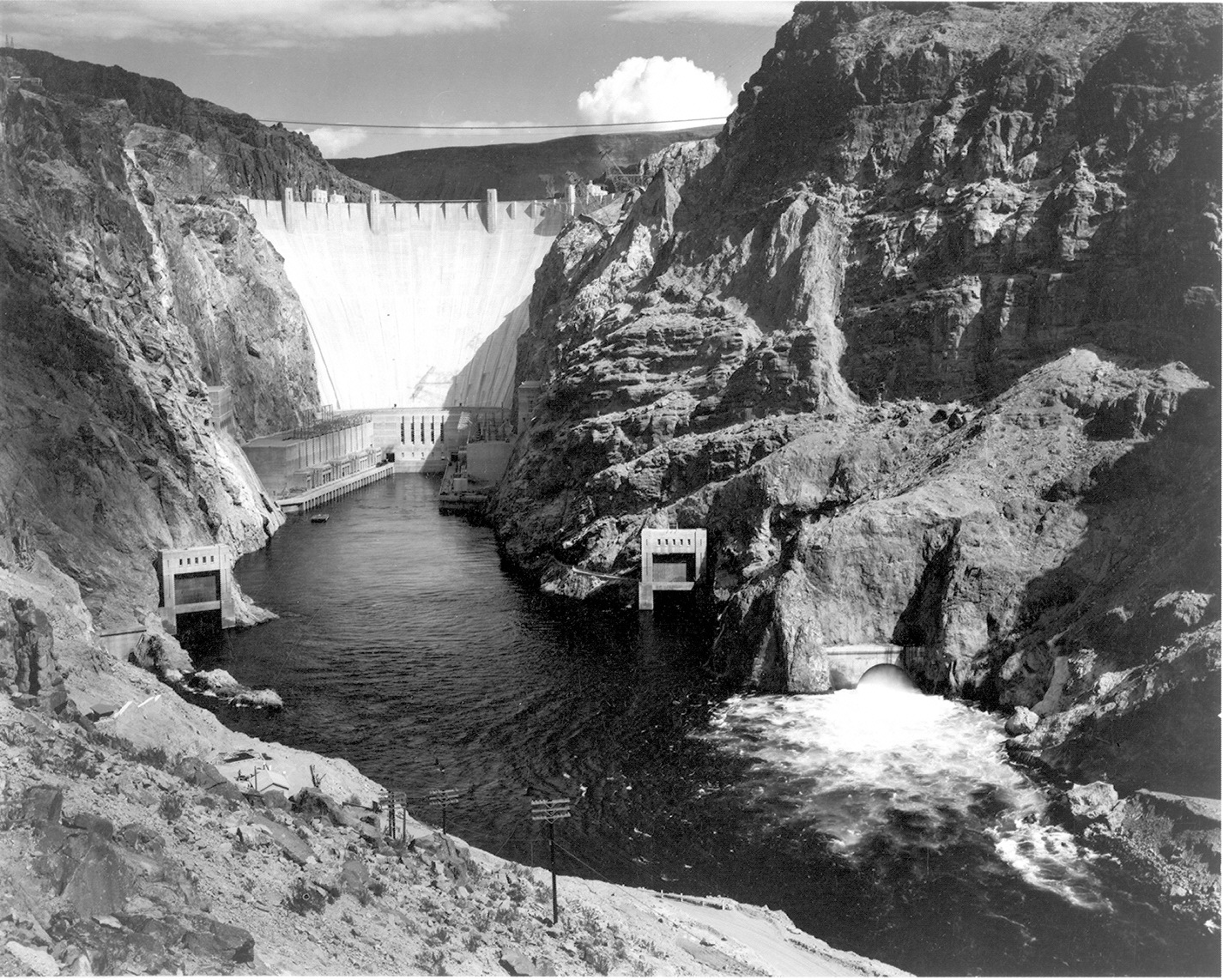 Scope and content: Original Caption: Boulder Dam, 1941.